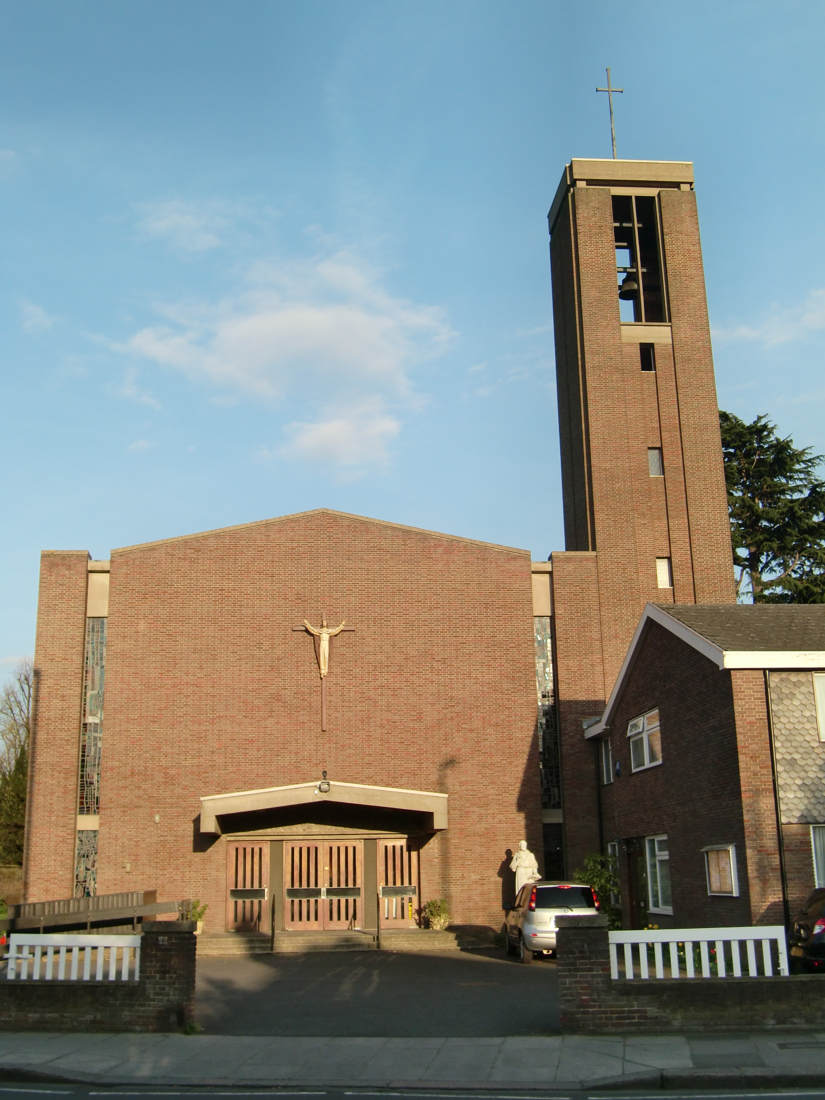 Roman Catholic church of St Francis de Sales, Wellington Road, Hampton Hill, Middlesex, seen from the west